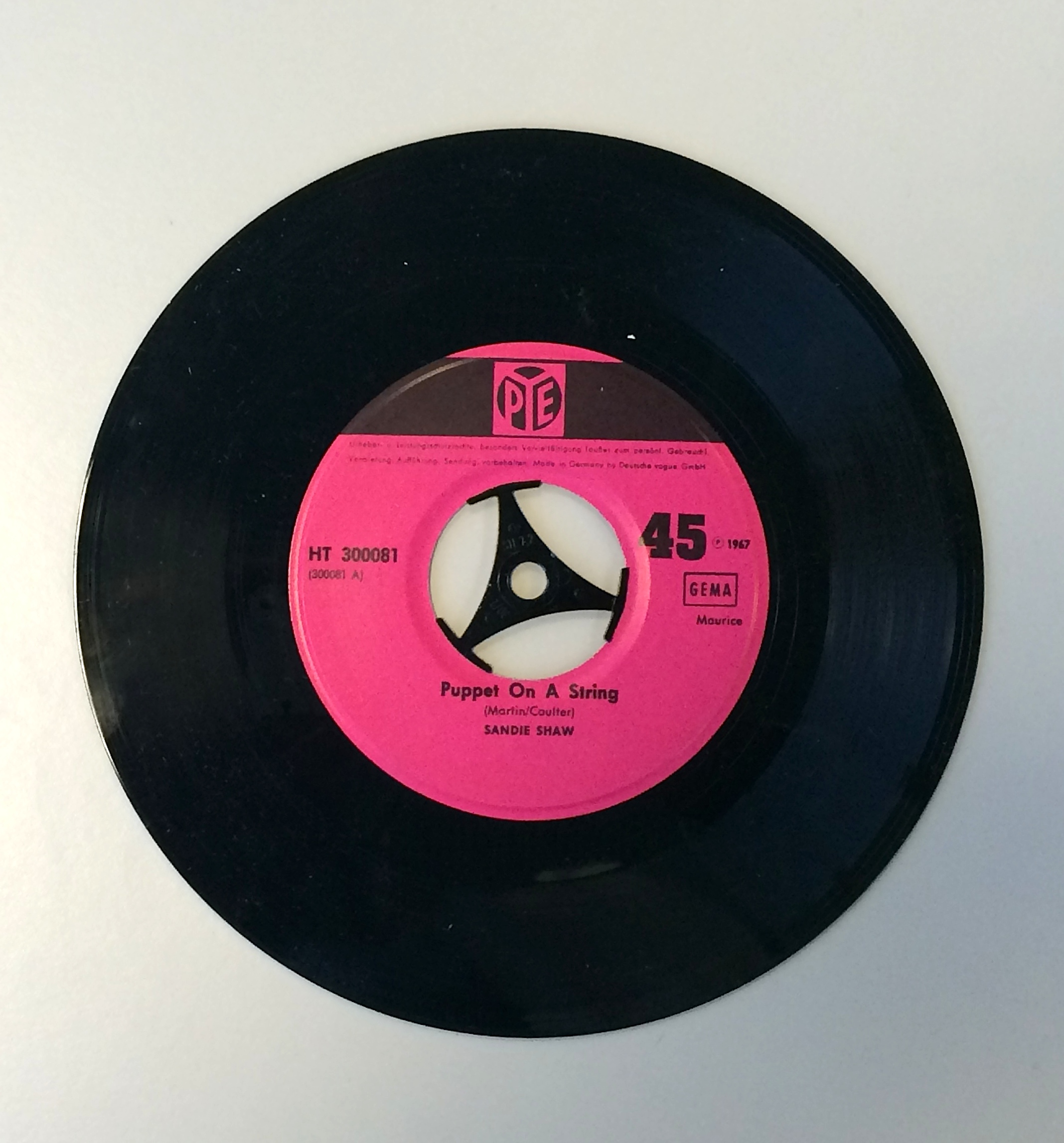 Single Puppet on a string, 1967